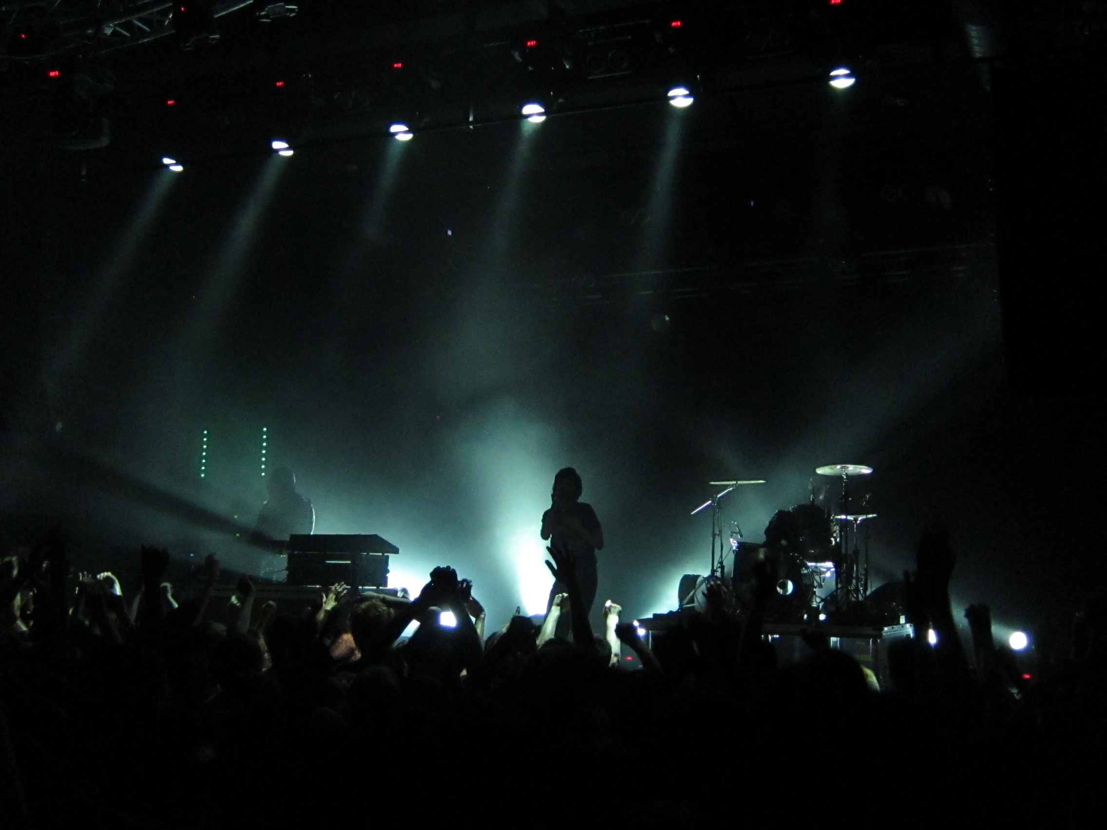 Crystal Castles performing at The Circus, Helsinki.